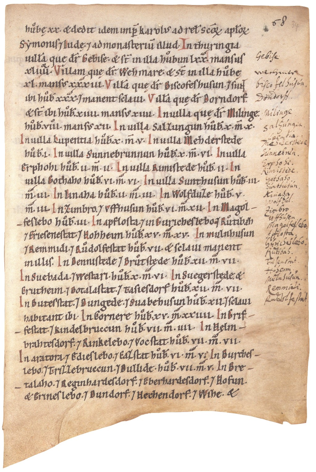 Property index of the Imperial abbey Hersfeld, originated between 755 and 814. The pictured deed ist as copy from 12th century